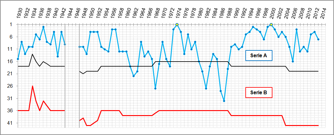 Overall performance of S.S. Lazio in Serie A and Serie B.